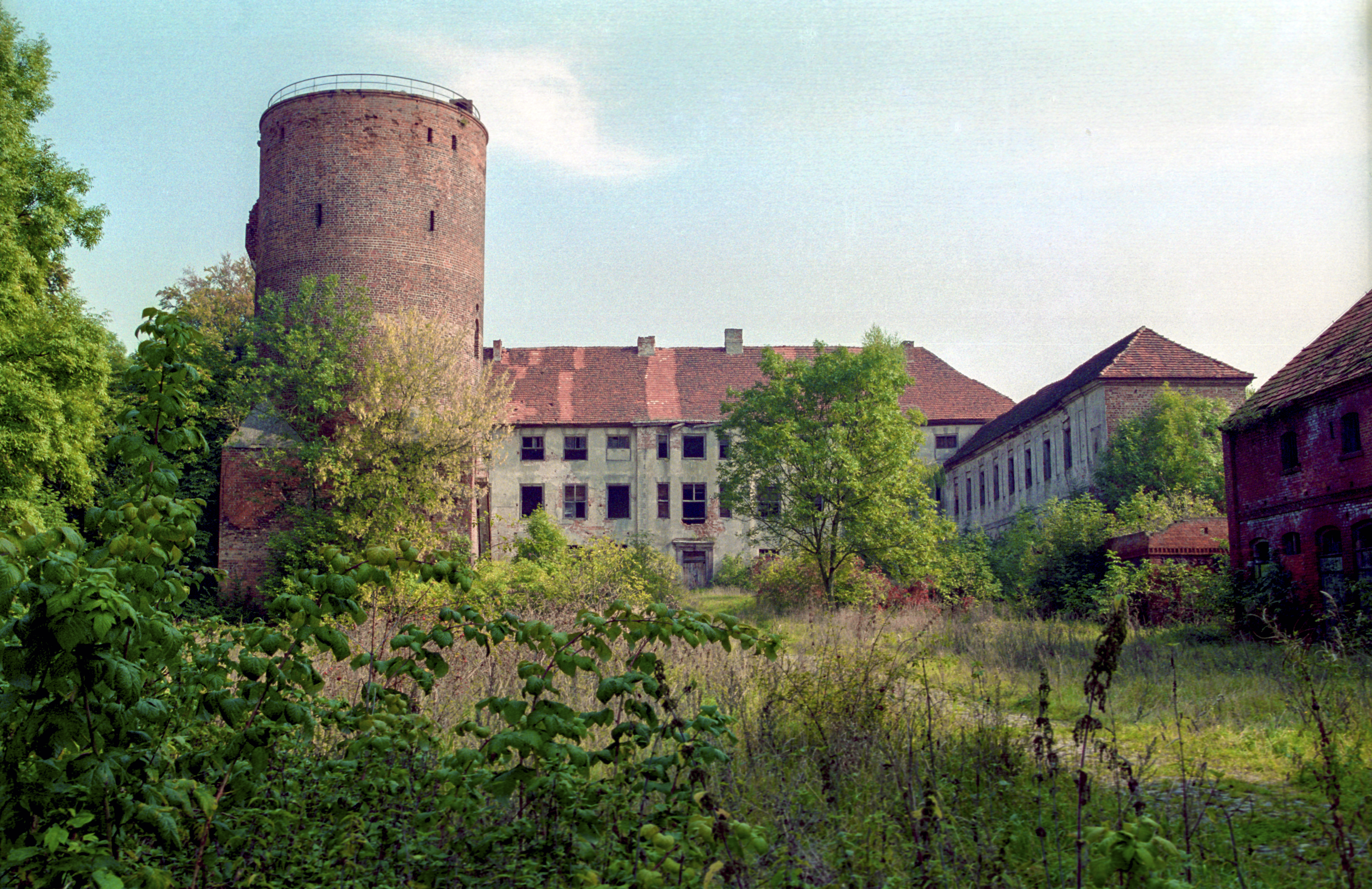 Poland, Swobnica Castle